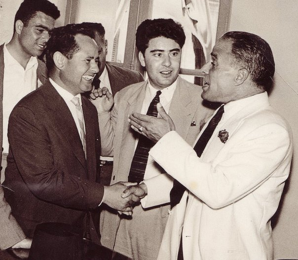 Habib Bourguiba and Ahmed Ben Salah.